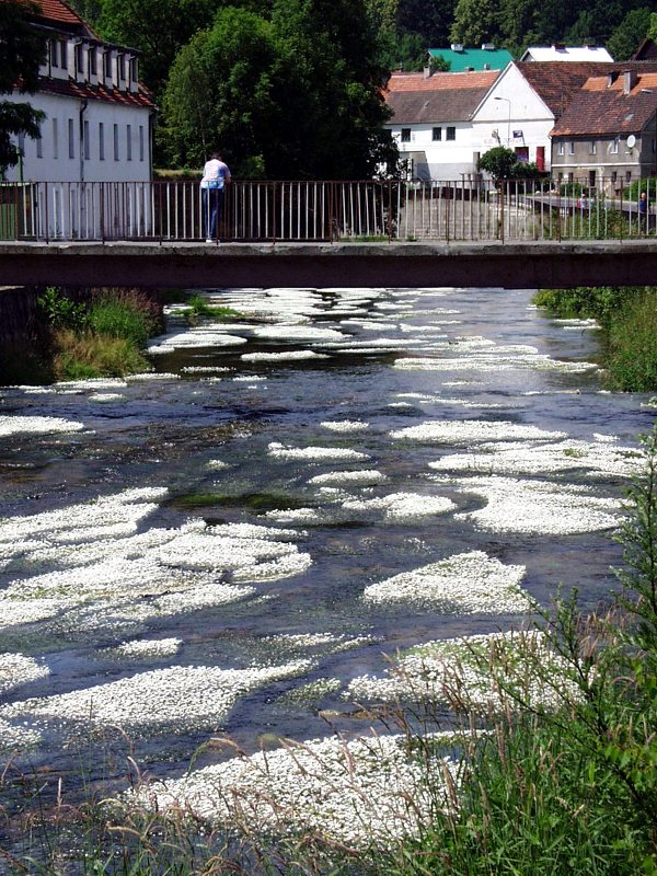 Ranunculus pseudofluitans on river Biała Ladecka in Ladek-Zdrój (Lower Silesian Voivodeship, Poland).